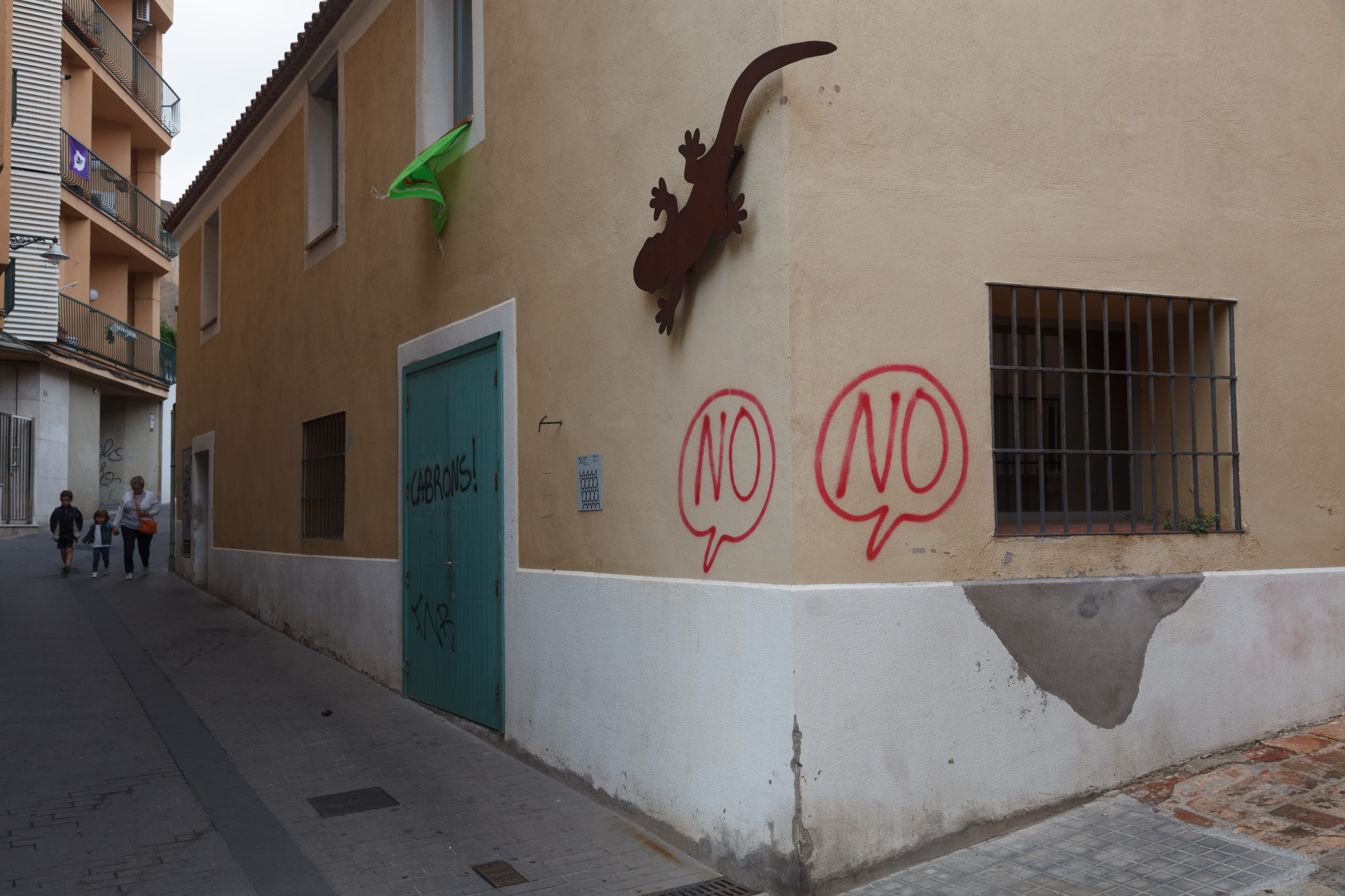 Graffiti against the 2017 Catalan independence referendum in Badalona (Barcelona province, Catalonia, Spain). Wikipedia: Catalan independence referendum, 2017 See also category: Catalan independence referendum, 2017.